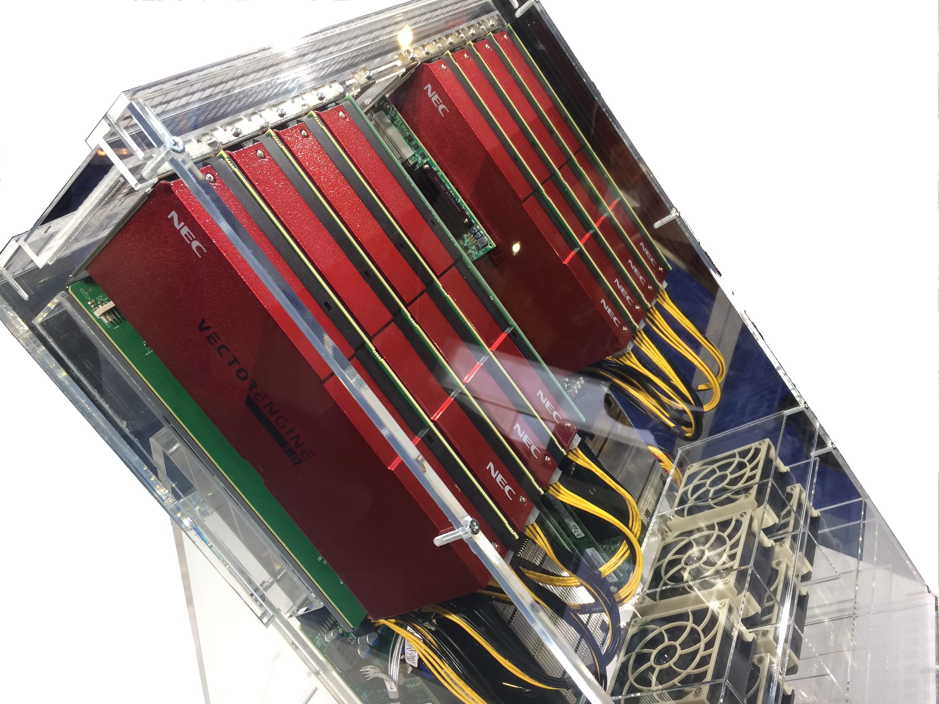 NEC SX-Aurora TSUBASA server with 8 Vector Engines. Photo taken at SC 2017 in Denver at the NEC booth.